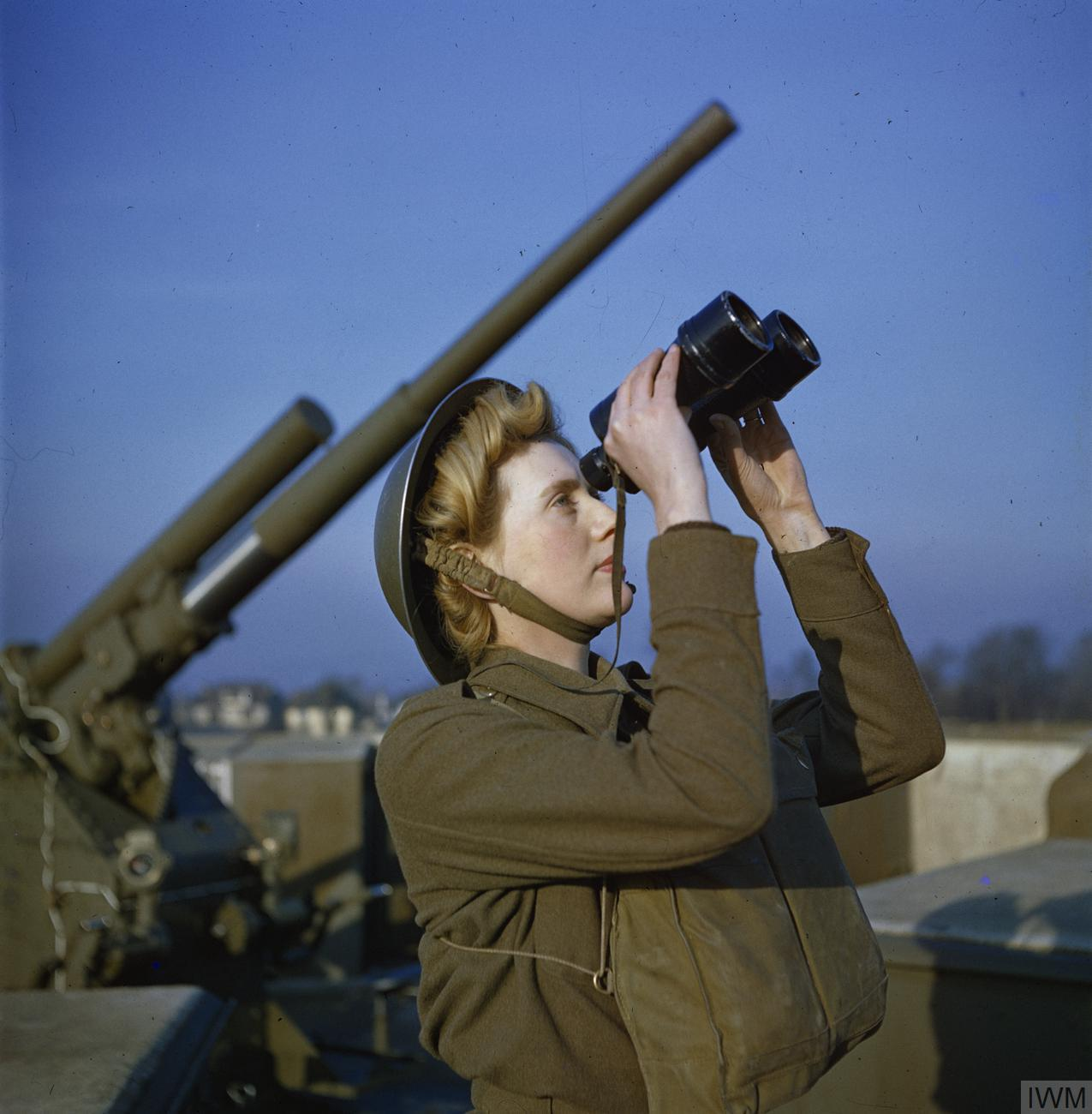 The Auxiliary Territorial Service at An Anti-aircraft Gun Site in Britain, December 1942 An ATS spotter with binoculars at the anti-aircraft command post. A 3.7 inch anti-aircraft gun can be seen in the background.